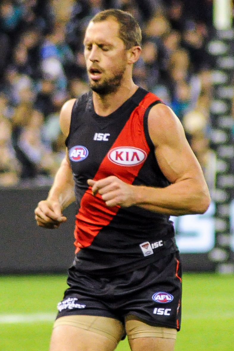 James Kelly during the AFL round twelve match between Essendon and Port Adelaide on 10 June 2017 at Etihad Stadium in Melbourne, Victoria.